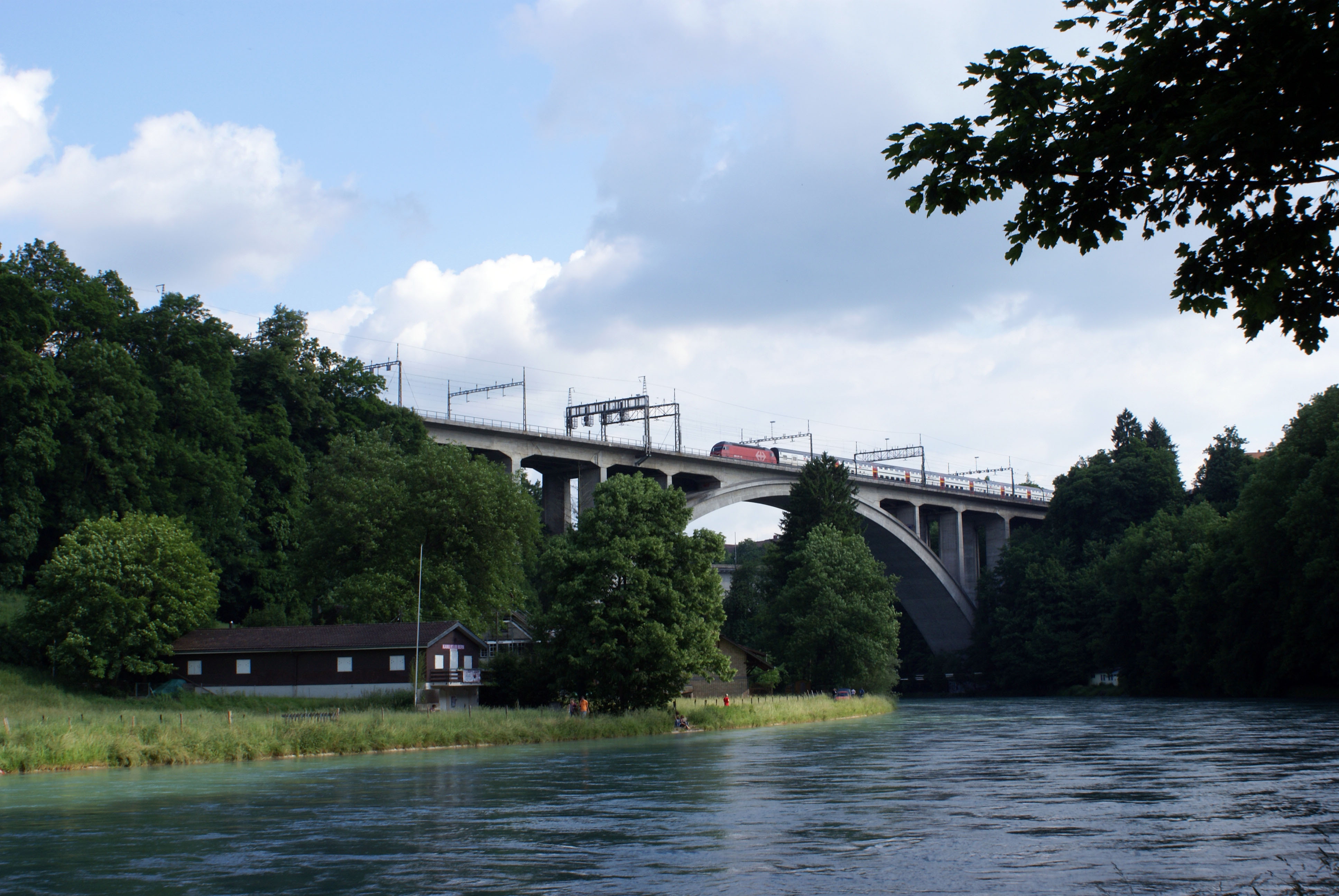 Railway viaduct crossing the Aar river, Berne, Switzerland. Built in concrete by the Federal Railways to replace the aging Rote Brücke. It was the longest four-track railway viaduct in Europe at the time of construction.